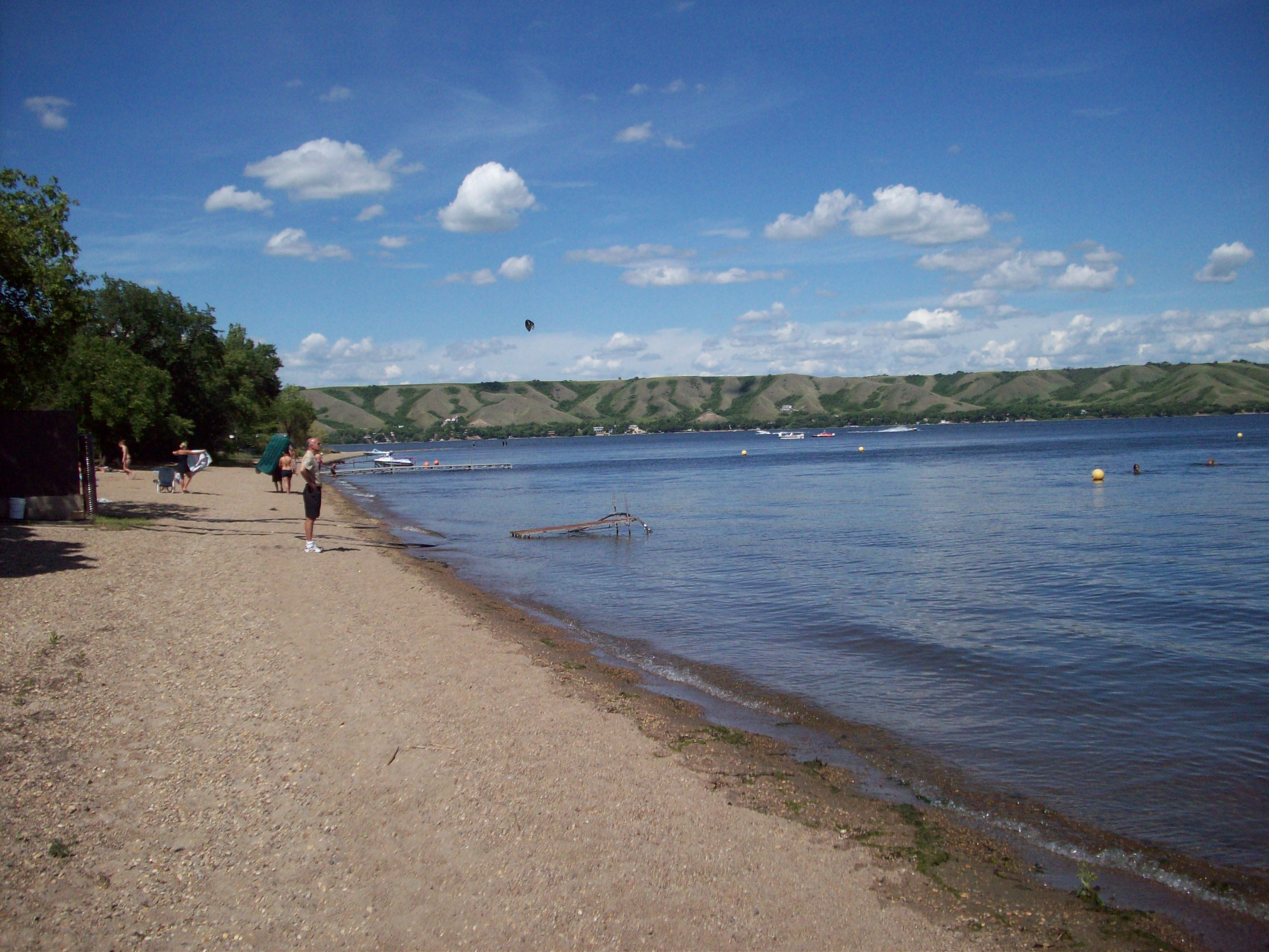 B-Say-Tah Point on Echo Lake in the Qu'Appelle Valley